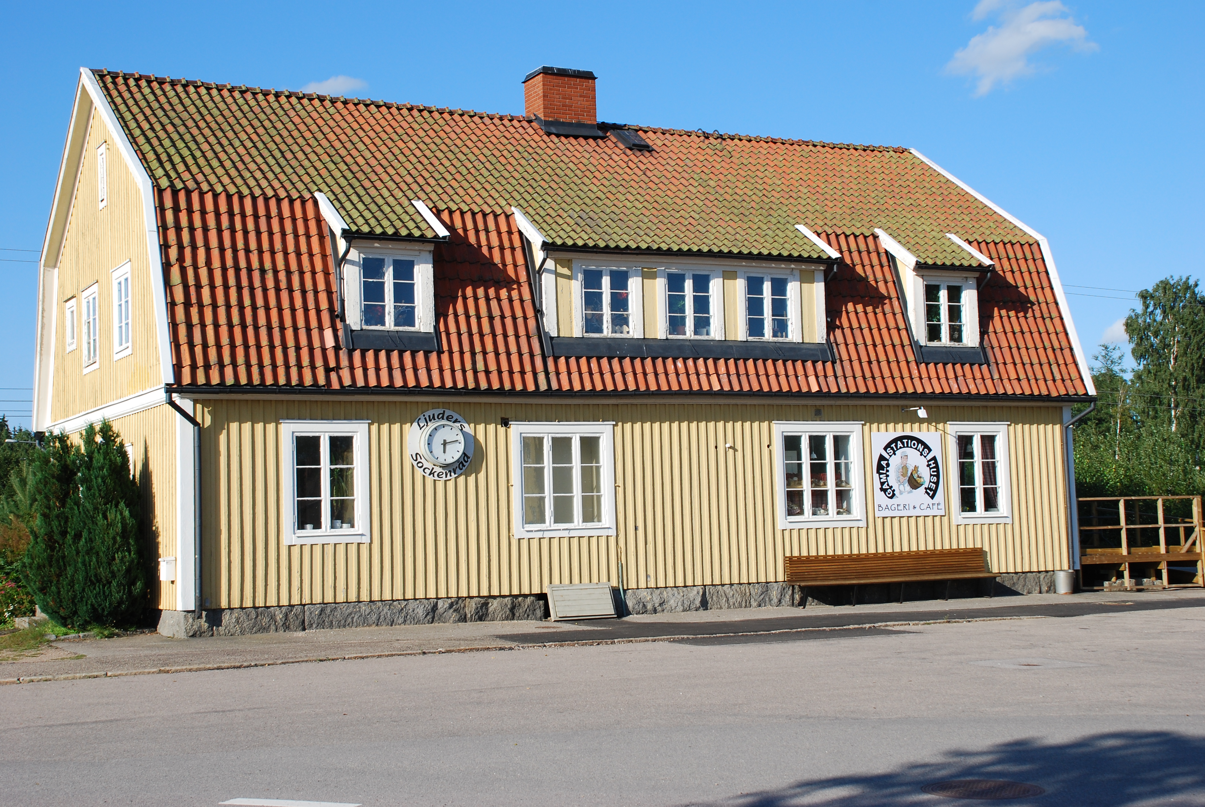 The former railway station at Skruv (between Lessebo and Nybro)